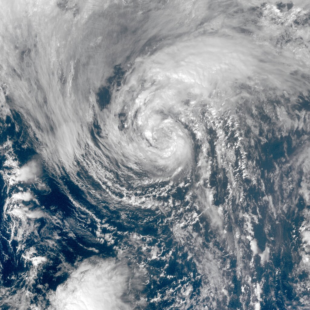 Tropical Storm Laura on September 30